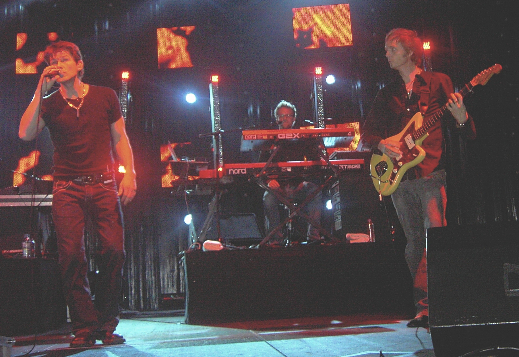 a-ha live at Cologne, 29th Oct. 2005 cropped photo